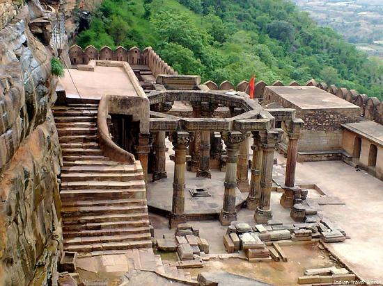 fort